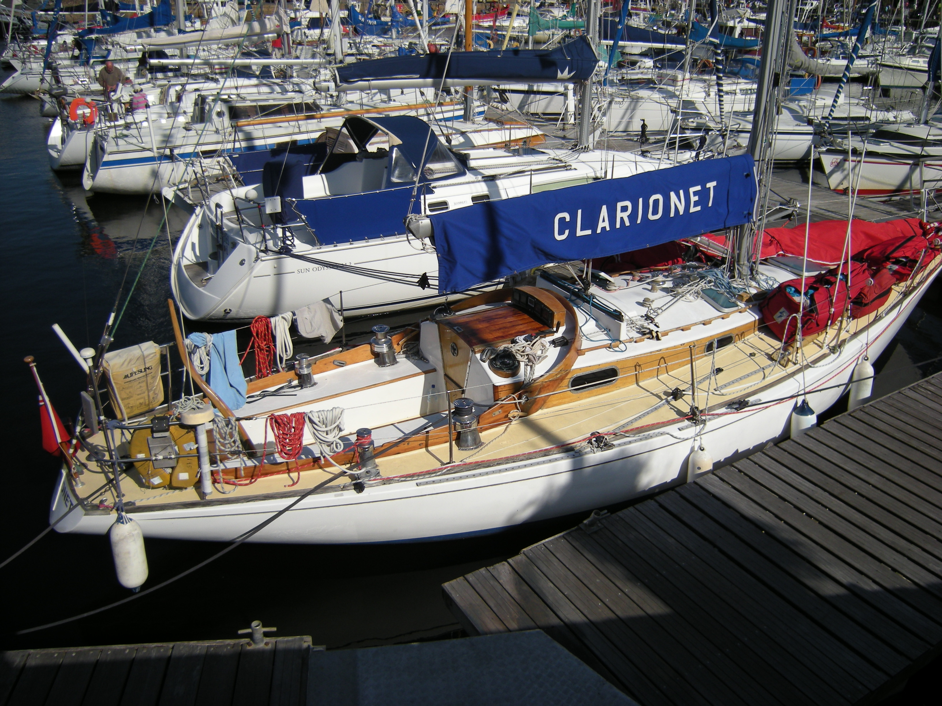 Classic Channel Regatta 2009, Paimpol. Clarionet, One Ton, 1966, designer Olin Stephens, builder Clare Lallow